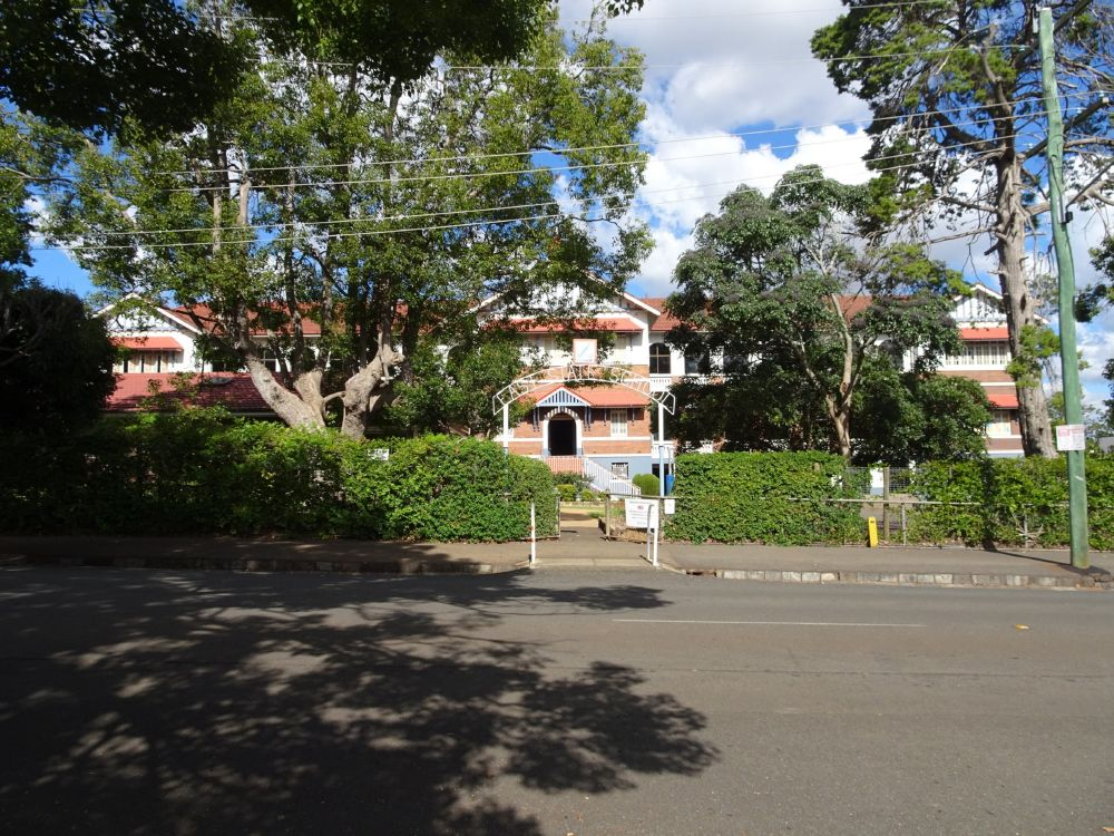 650050 Trees, archway and Block A from Arthur St